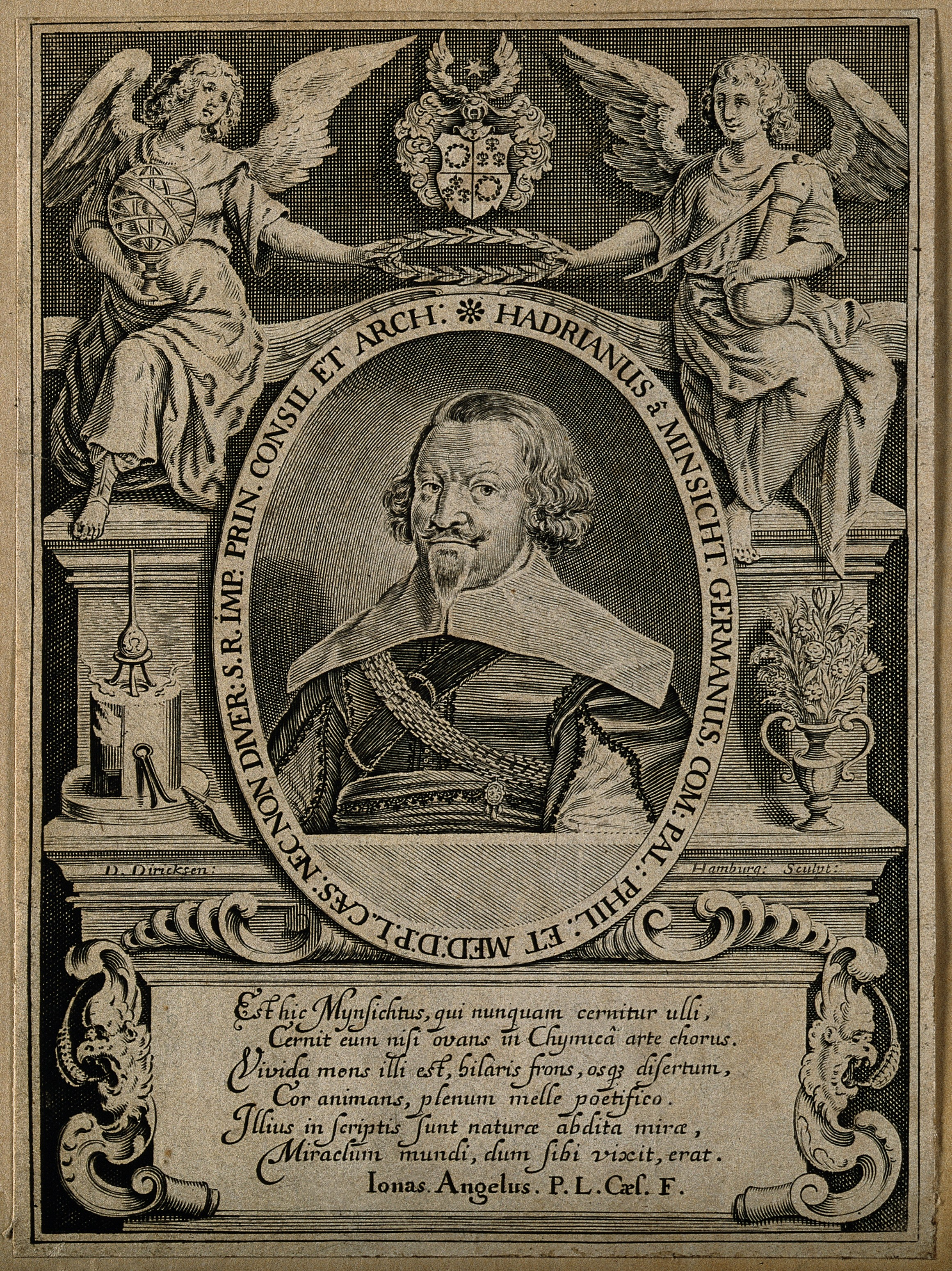 Adrianus à Mynsicht [Seumenicht]. Line engraving by D. Dirickson. Iconographic Collections Keywords: portrait prints; Adrianus à Mynsicht; engravings